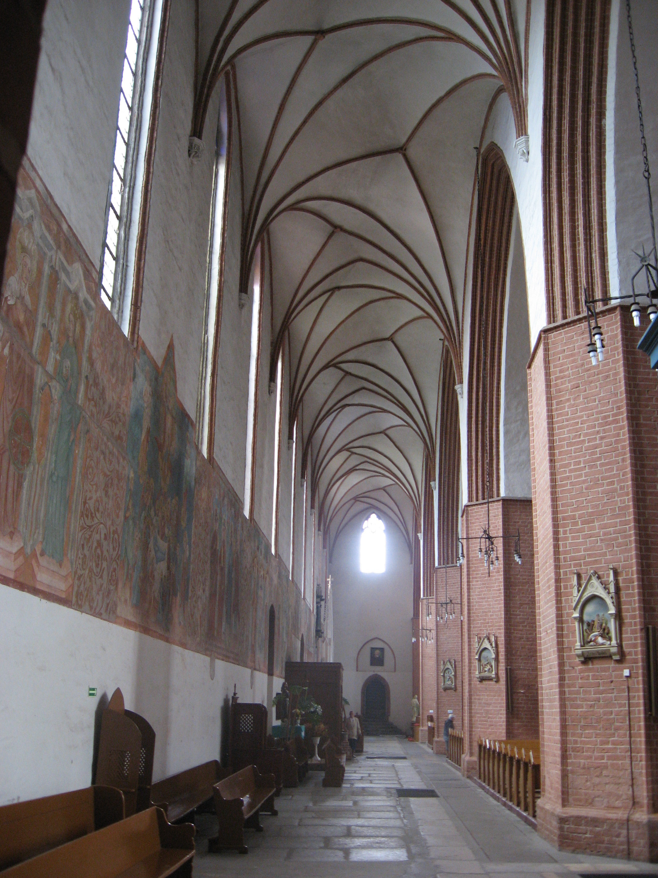 Kwidzyn, northern aisle of the cathedral, looking east